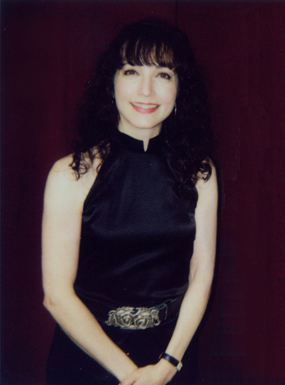 Actress Bebe Neuwirth at the Annual Flea Market and Grand Auction hosted by Broadway Cares/Equity Fights AIDS on September 26, 2006. Created by Insomniacpuppy (WTCA).